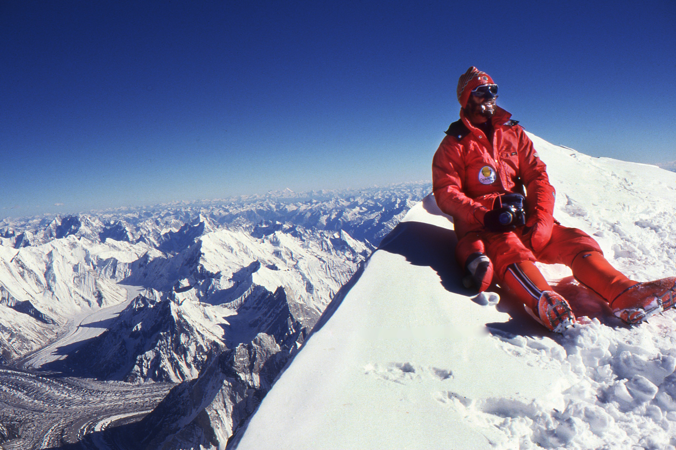 K2 - climbing partner Beda Fuster on top of K2